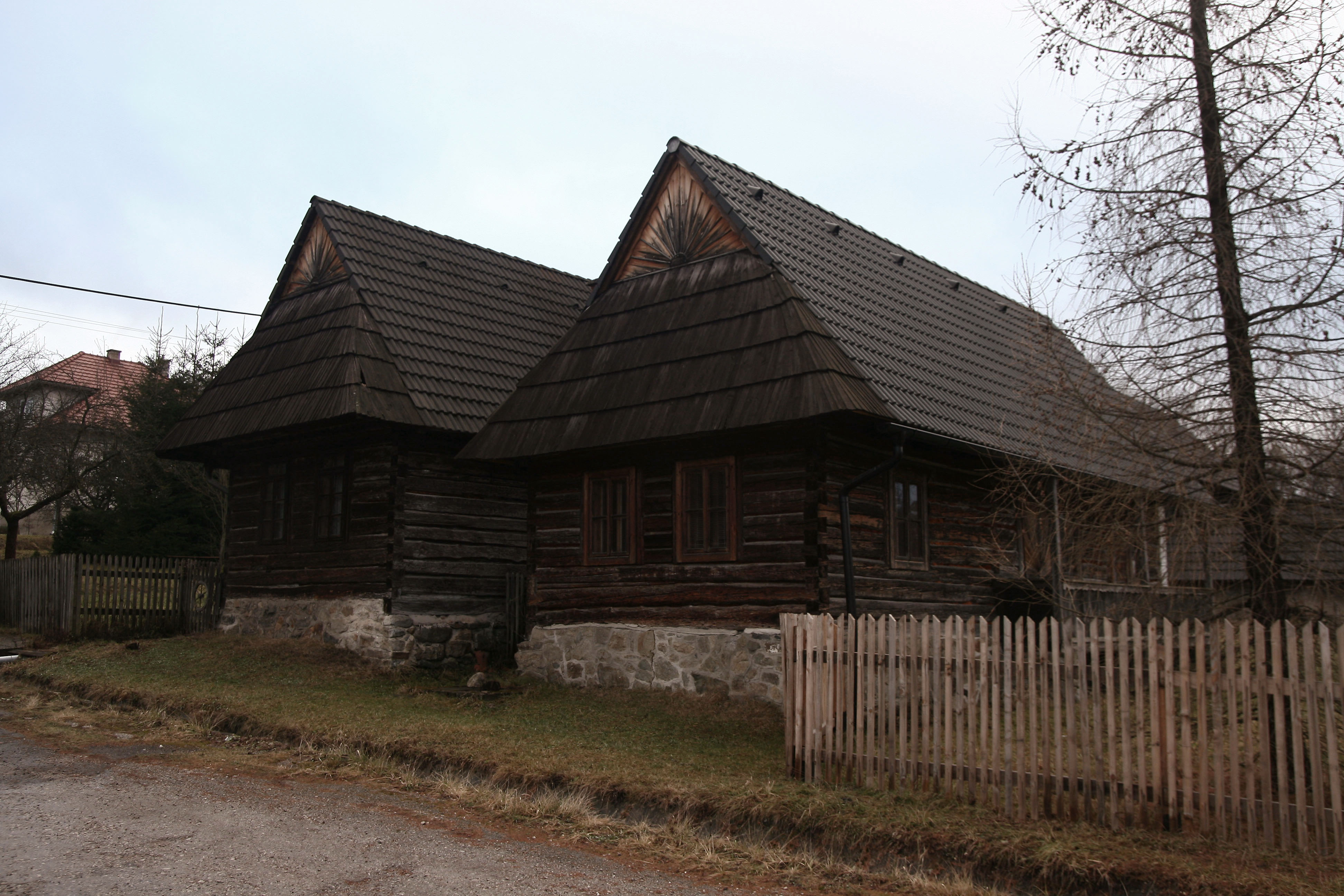 Rural wooden houses in Budiš, Slovakia